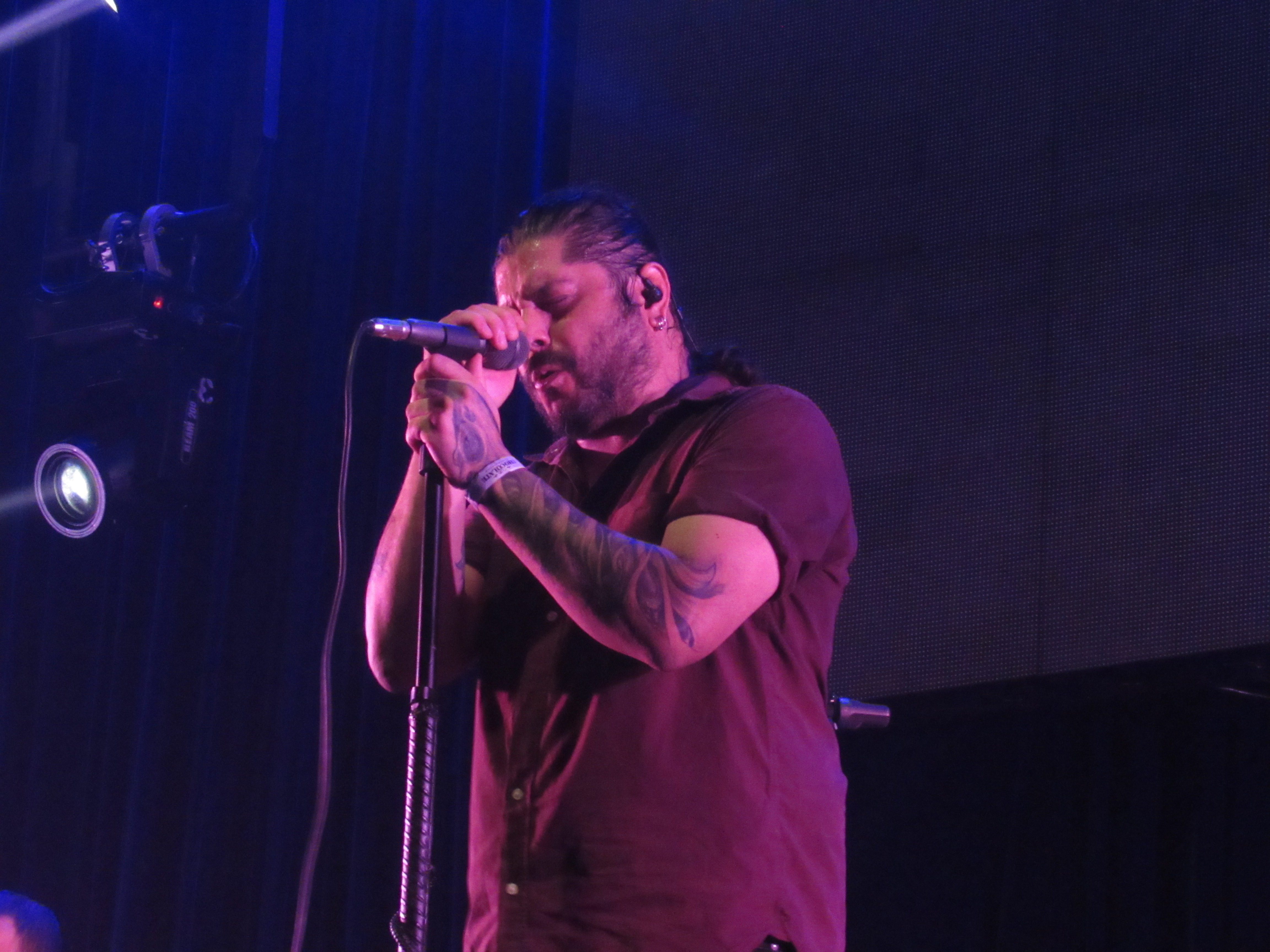 Photograph of Jaime Sepulveda Rojas, lead singer of the chilean rock band Kuervos del Sur during the presentation at "Peña de los Kuervos" held on March 23, 2019 at Club Chocolate, Barrio Bellavista, Santiago of Chile.